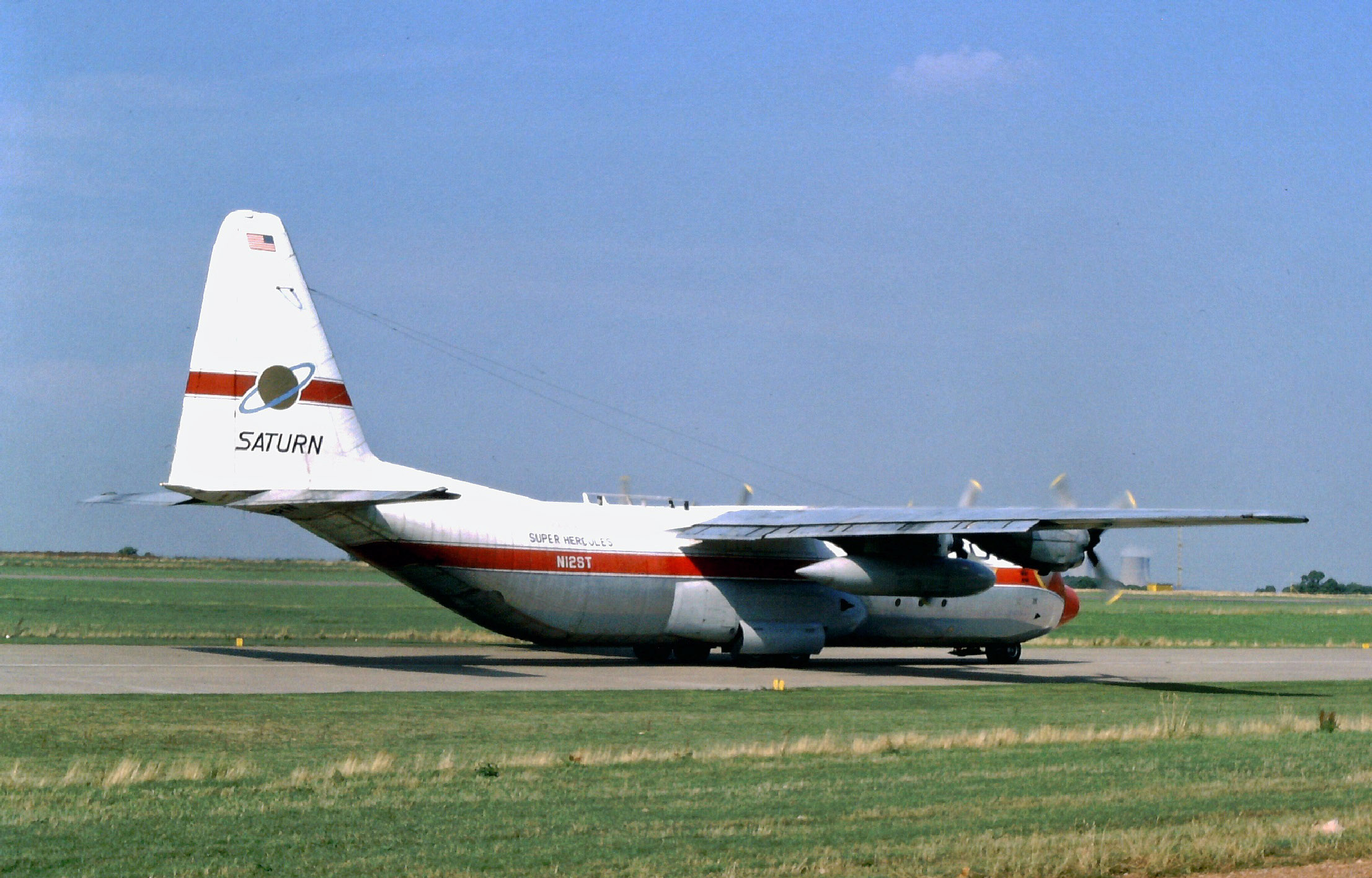 N12ST L100 Hercules Saturn taxing for departure East Midlands Airport 29-07-1975